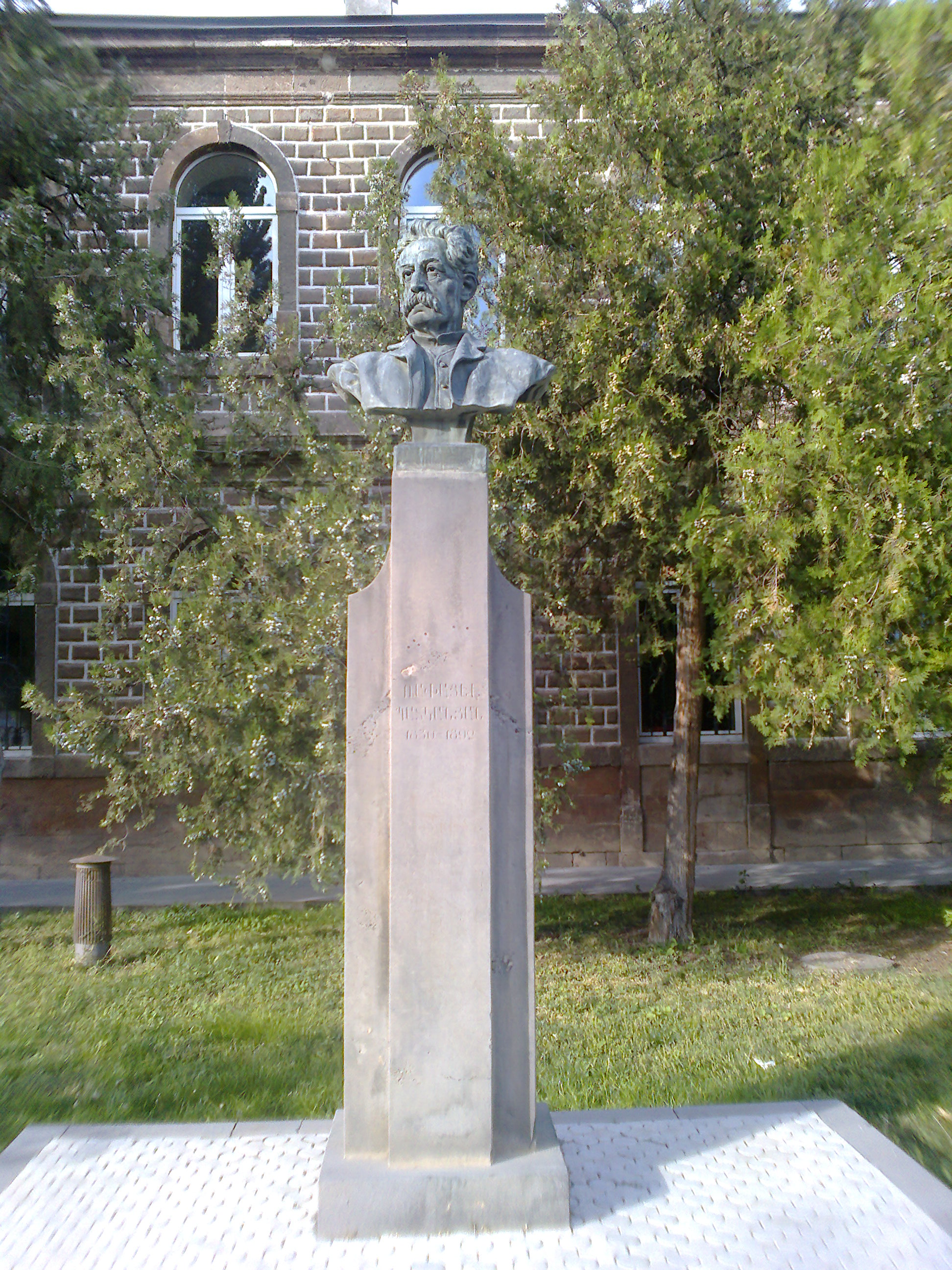 The statue of Raphael Patkanian 2/28.1